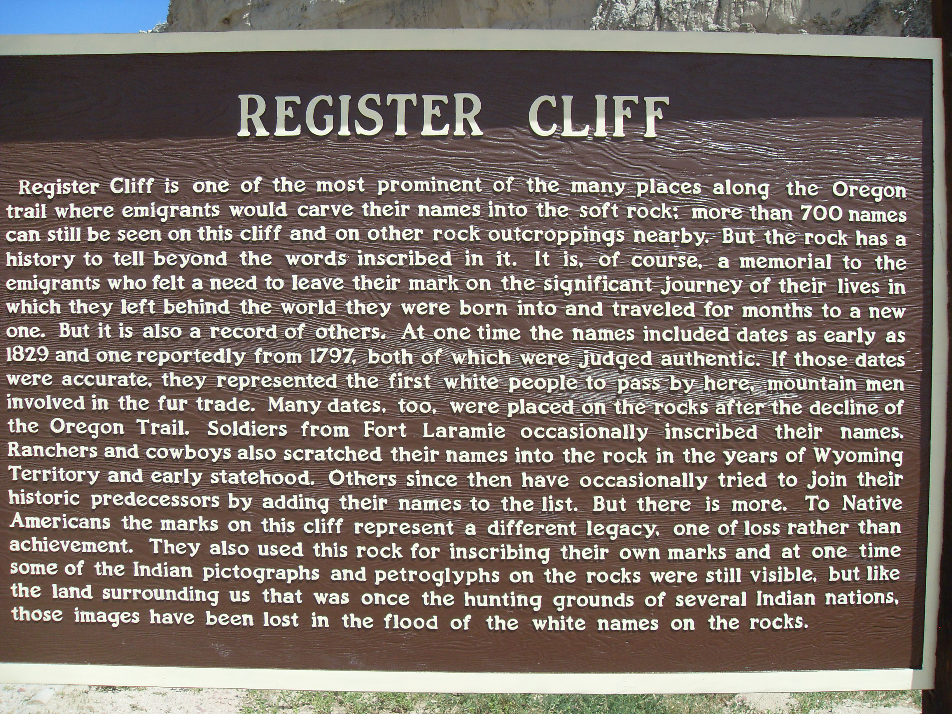 Information plate at Register Cliff